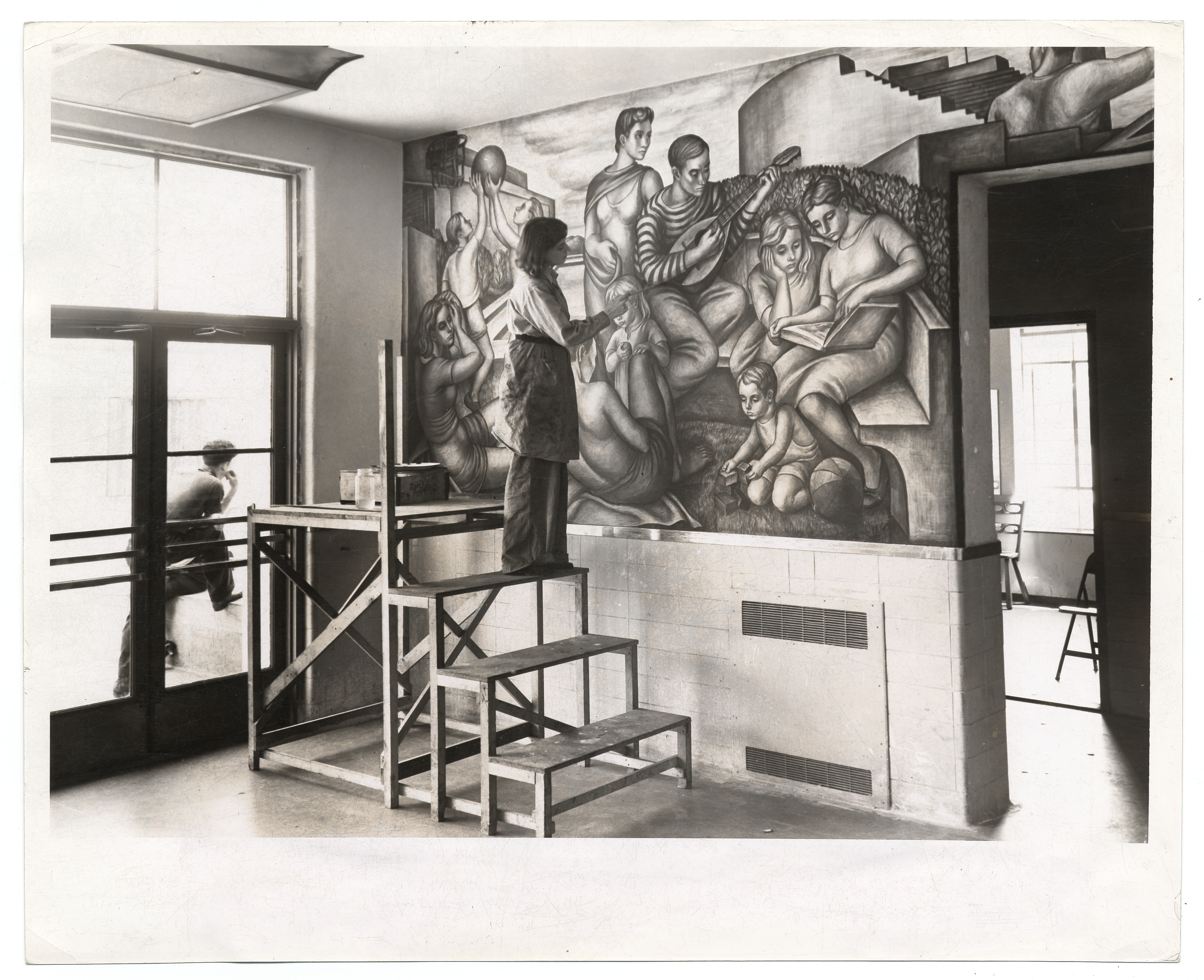 Greenwood working on a fresco mural titled, "Planned Community Life" for the Red Hook Housing. Identification on verso (handwritten and stamped): Art Project W.P.A.; Photographic Division; 110 King Street; New York City Negative No.: P4128-1; Date: 6-4-40; Photographer: Shalat; Artist: Greenwood; Medium: Mural; Location: Red Hook Housing